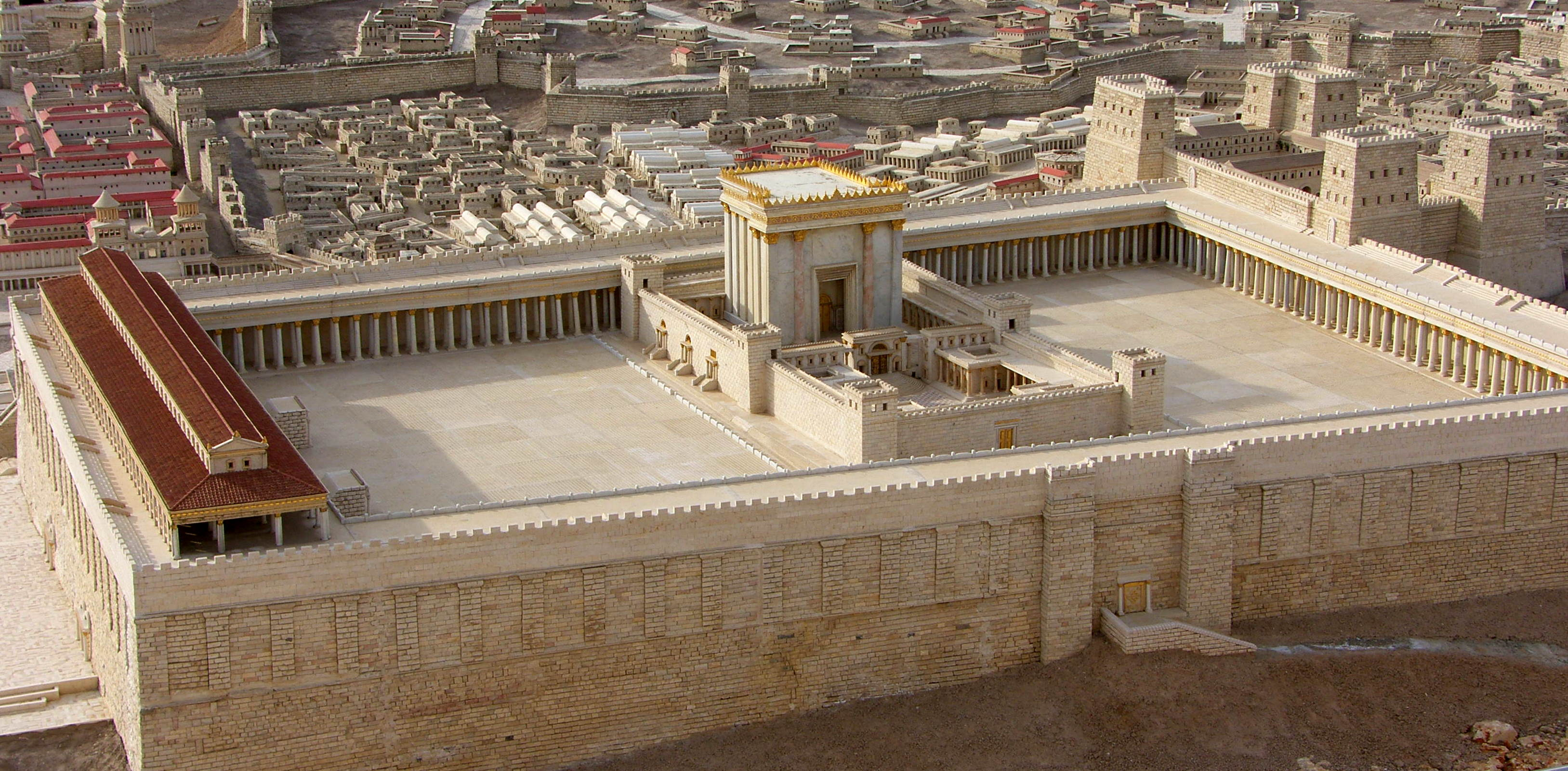 HERODS TEMPLE